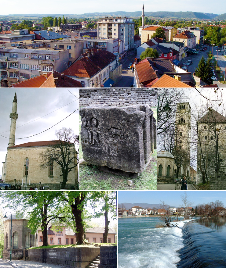 Bihać collage: panorama, Bihać mosque, Bihać stecak, Bihać kula, Bihać turbe, Bihać river Una